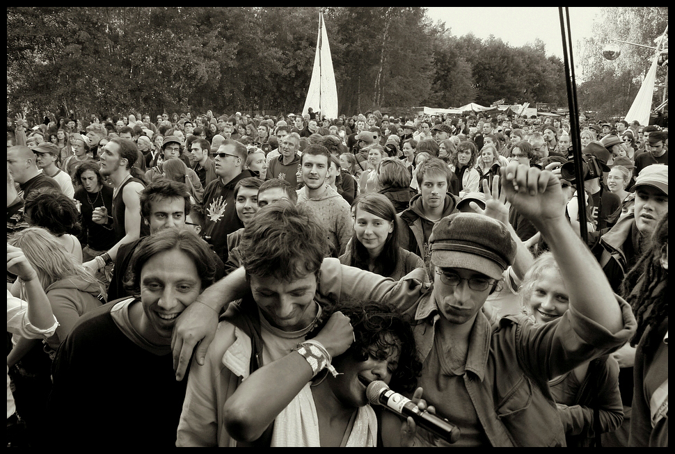 Sasha Perera performs as singer of Jahcoozi in the crowd at a Festival near Mirow north of Berlin, 2008, photo by Libertinus